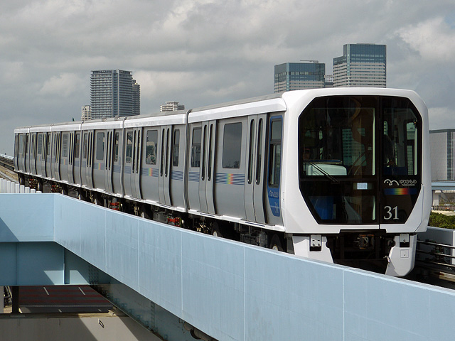 A Yurikamome 7300 series trainset approaching Ariake Tennis-no-Mori Station on a test run